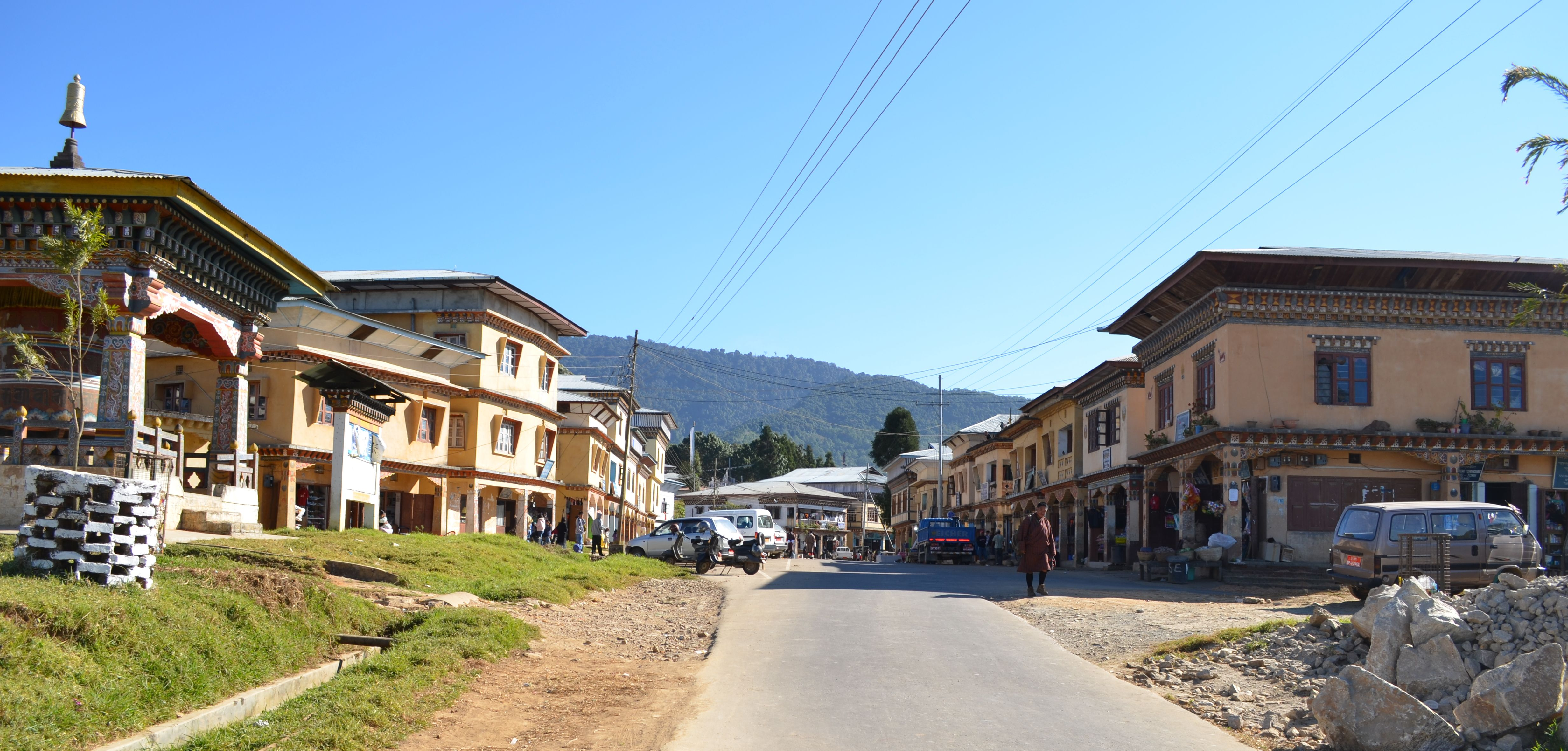 Main road, Damphu, Tsirang, Bhutan. (Taken from north end looking south.)